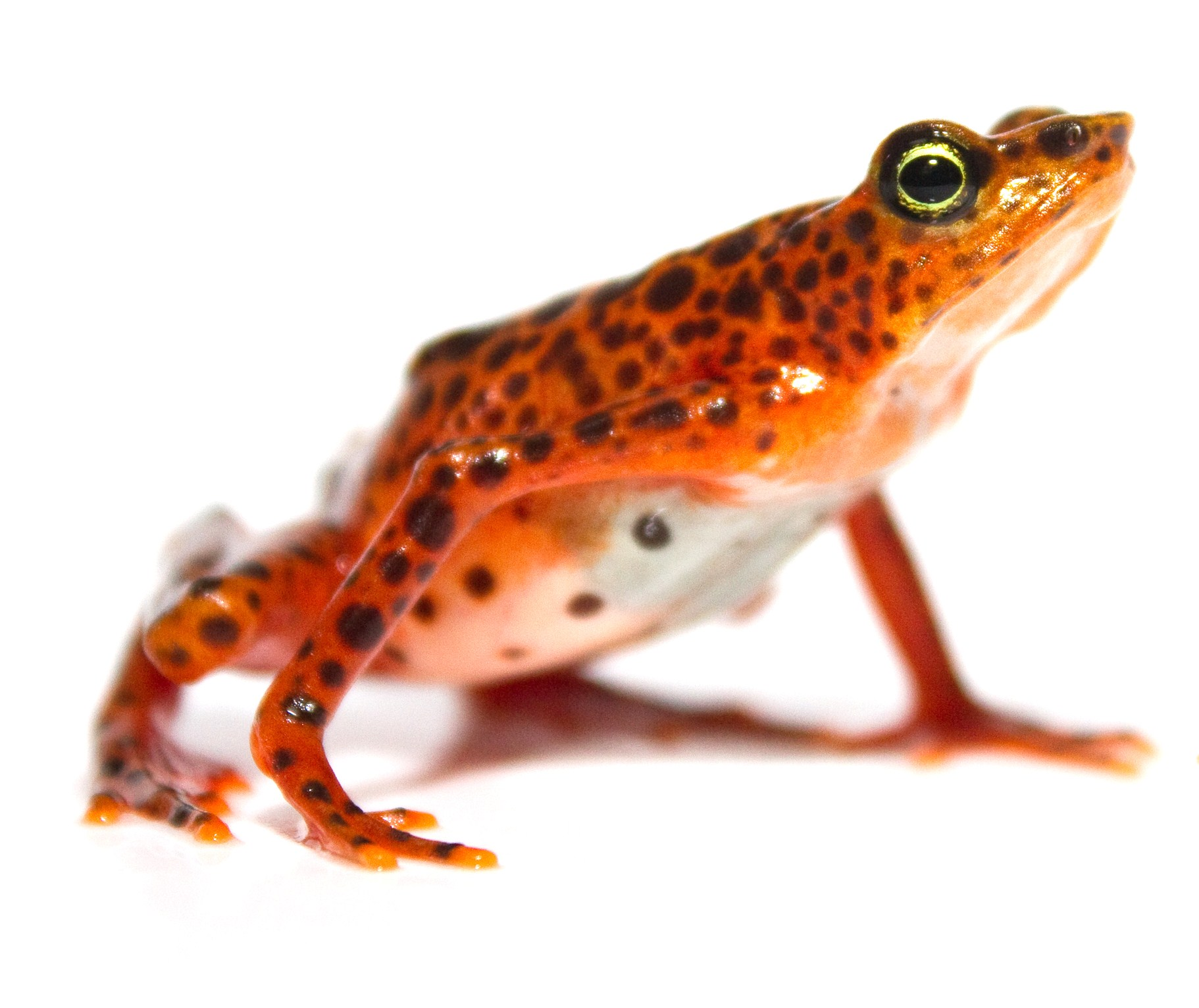 Toad Mountain Harlequin frog. Female.